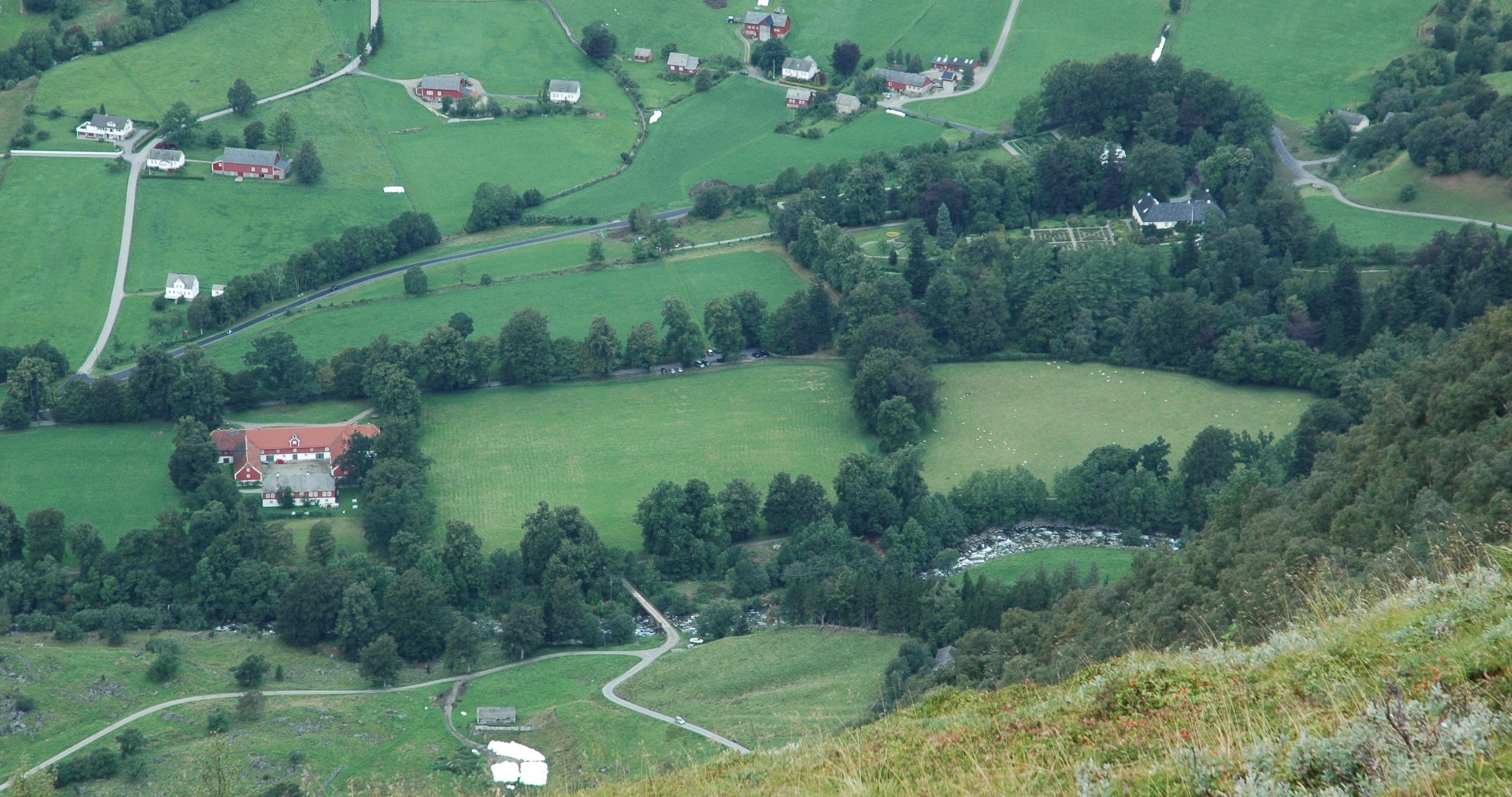 Rosendal castle, Norway, seen from the mountain Malmangernuten. The castle is the white house amongst the trees to the right. Big red building is the "stud farm" (Avlsgården). My own photograph, Kjetil Lenes.